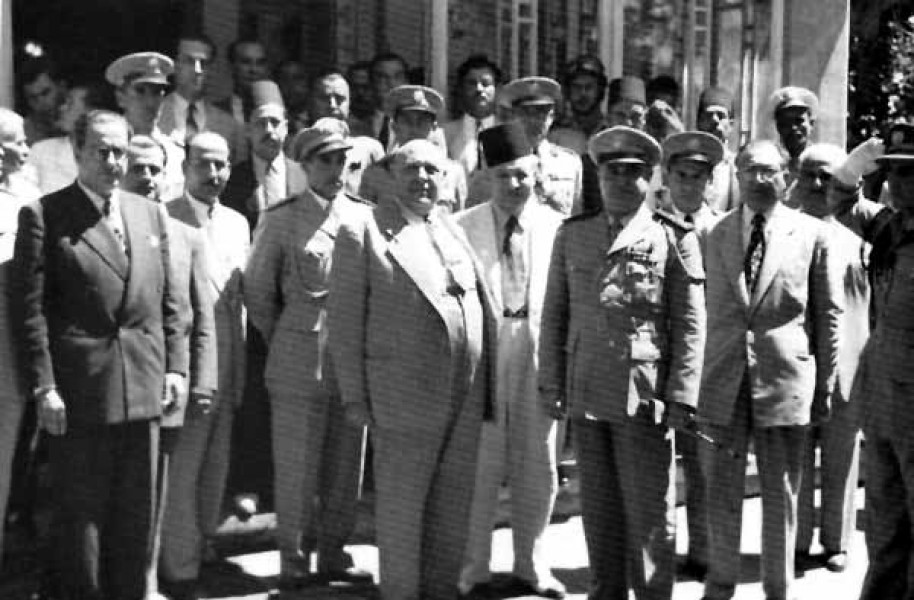 A Syrian-Lebanese summit in July 1949. From left to right: Syrian Prime Minister Muhsin al-Barazi, President Husni al-Zaim, Lebanese Prime Minister Riad as-Solh, President Bechara El Khoury.